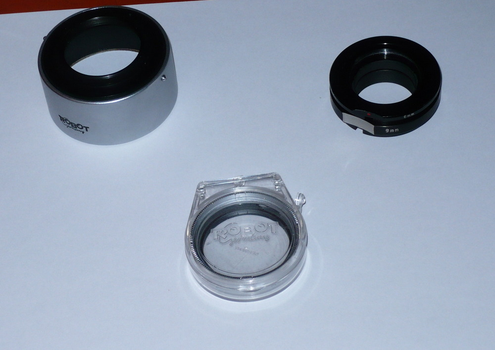 Robot camera lens shade, extension tube set and close up lens